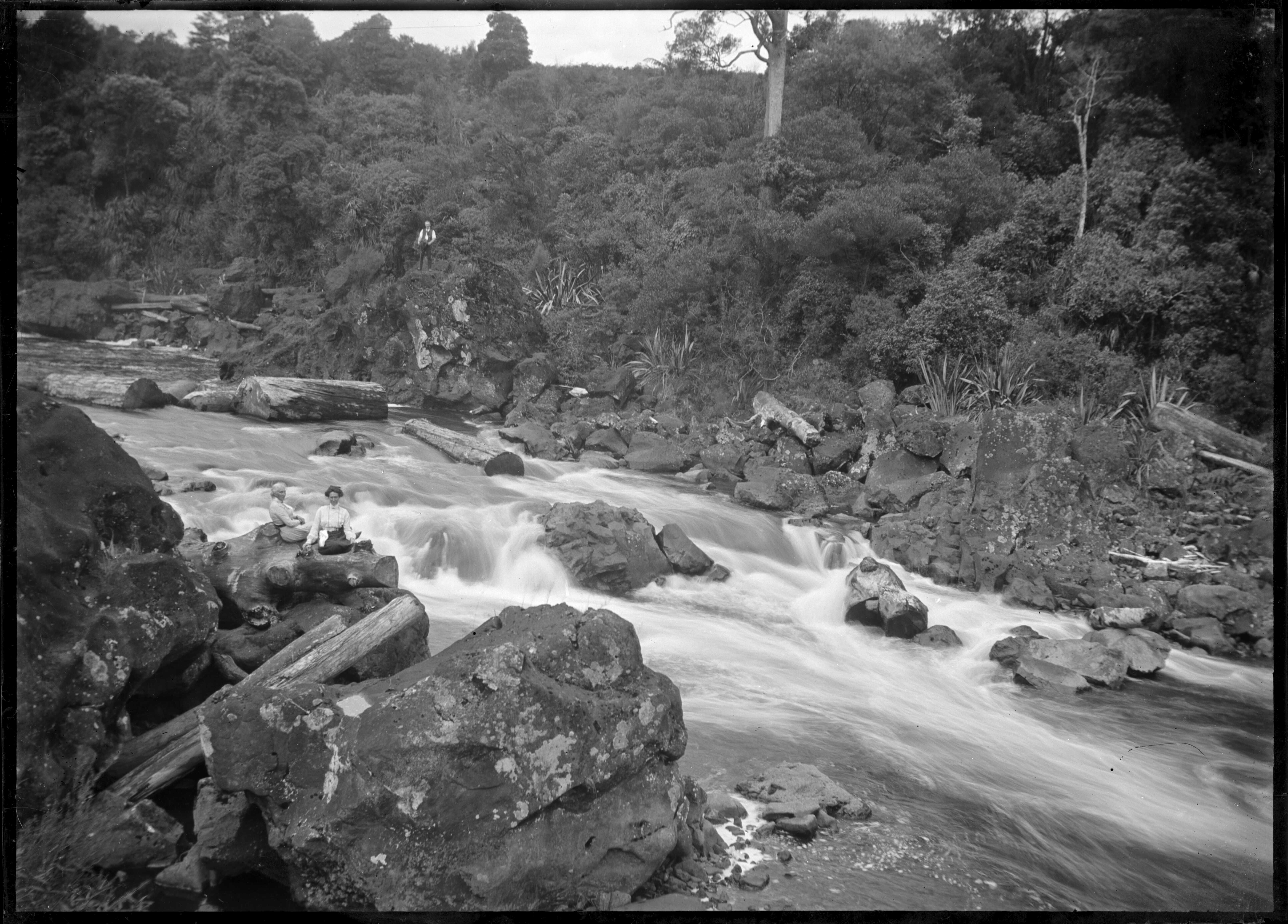 Two women and a man beside the rapids below the Wairua Falls. The woman on the right with dark hair is the photographer's wife, Laura Godber. Taken by Albert Percy Godber in 1911.